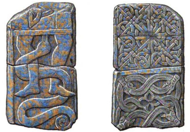 drawing of Cross shaft, found at A' Chill, Canna, Inner Hebrides, Scotland more info about the fragment